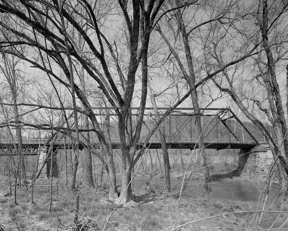 Phoenix Bridge, Spanning Craig Creek at State Route 685, Eagle Rock vicinity (Botetourt County, Virginia) cropped This image or media file contains material based on a work of a National Park Service employee, created as part of that person's official duties. As a work of the U.S. federal government, such work is in the public domain in the United States. See the NPS website and NPS copyright policy for more information. Creator: U.S. Department of the Interior, National Park Service, Historic American Engineering Record. Survey number HAER VA,12-EGRK.V,1-4 Source: U.S. Library of Congress, Prints and Photographs Division, "Built in America" Collection. Copyright: "The original measured drawings and most of the photographs and data pages in HABS/HAER/HALS were created for the U.S. Government and are considered to be in the public domain." Object location37° 39′ 16″ N, 79° 50′ 23″ W